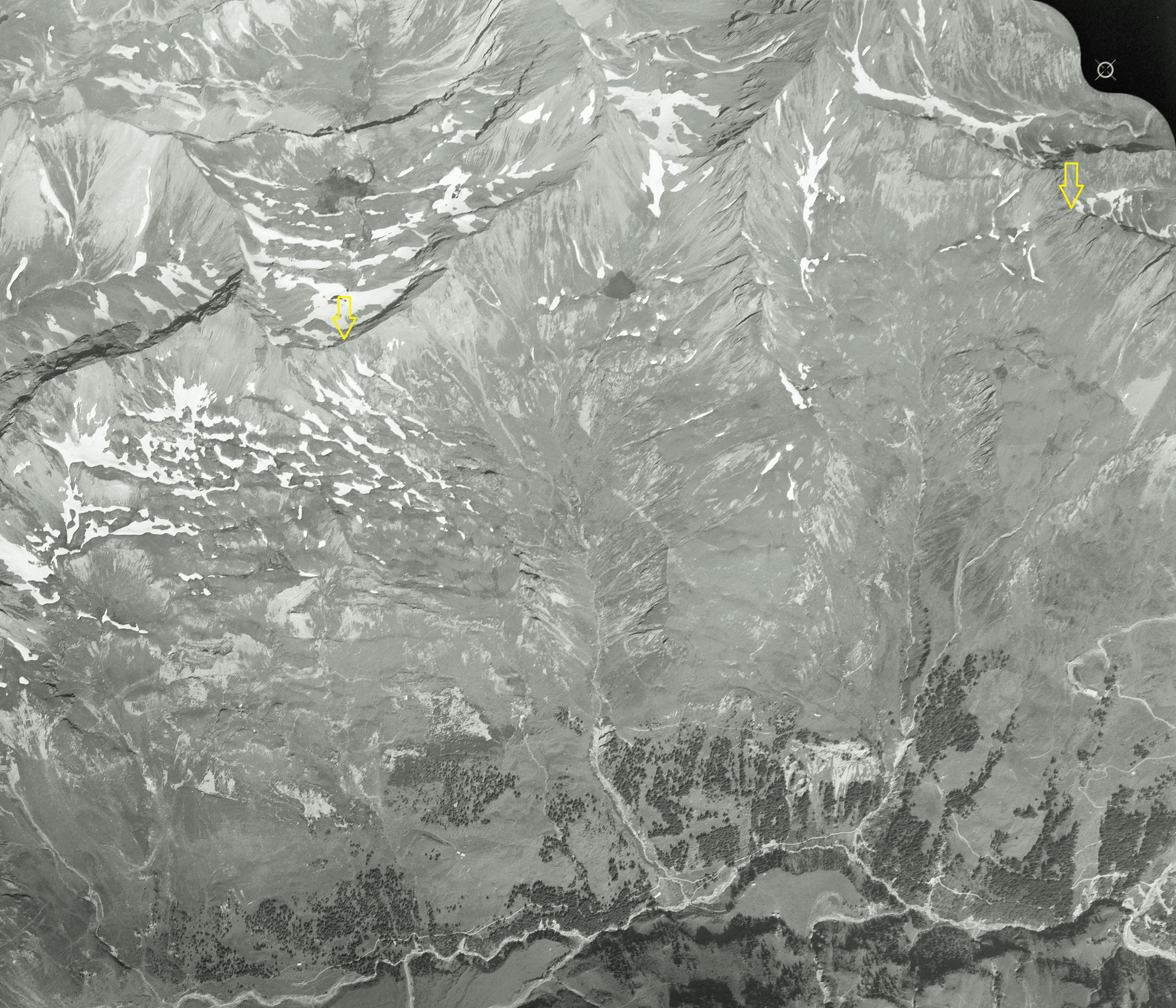 Heubützlipass (links) und Heidelpass (rechts), Calfeisental SG, Schweiz